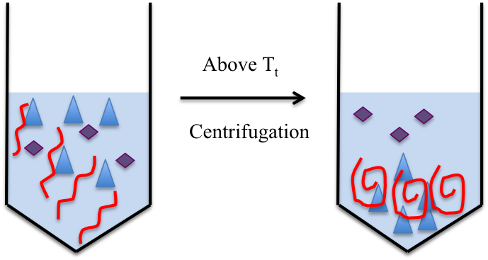 Protein Isolation